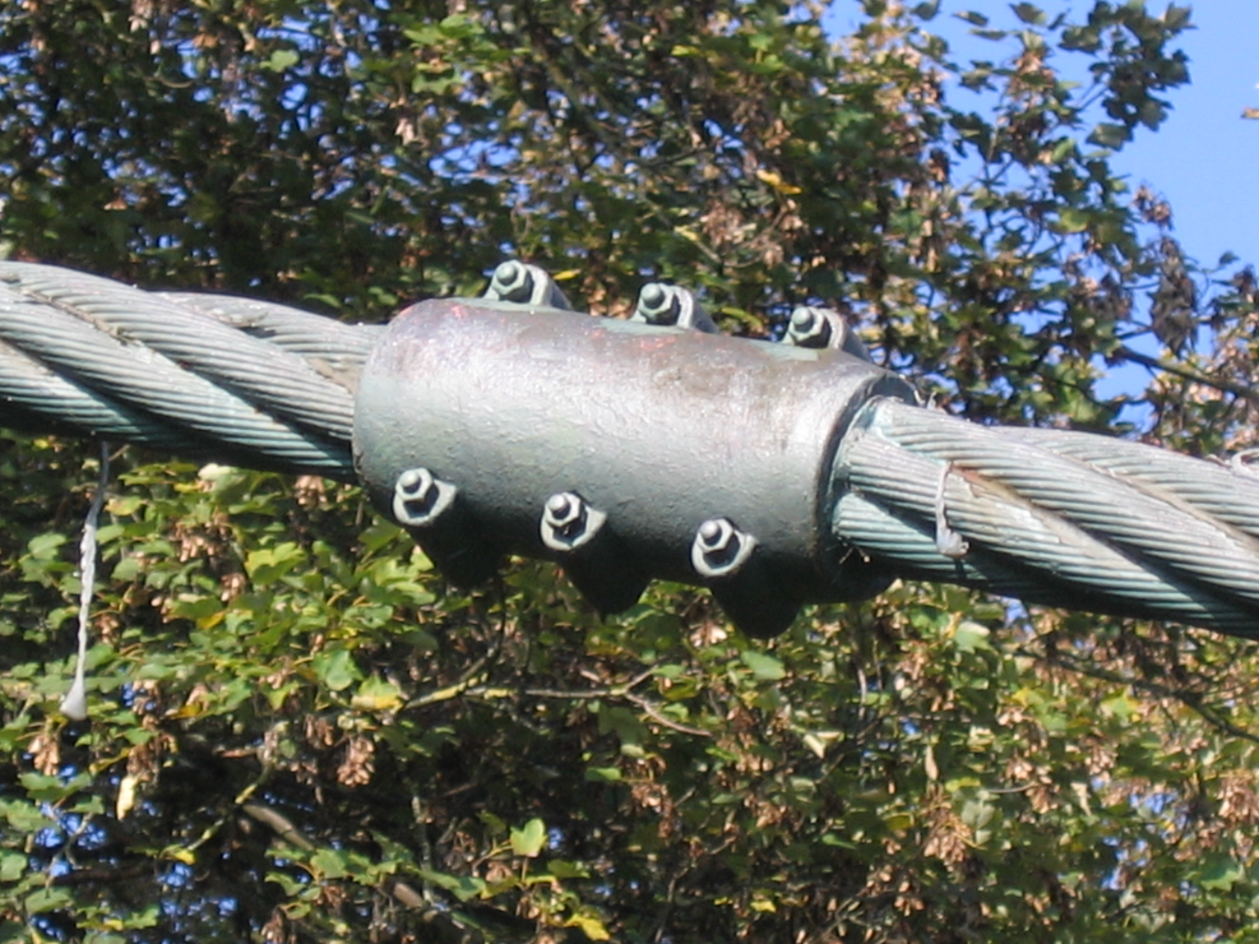 Germany - Baden-Württemberg - Bodenseekreis - Kressbronn/Langenargen: suspension bridge